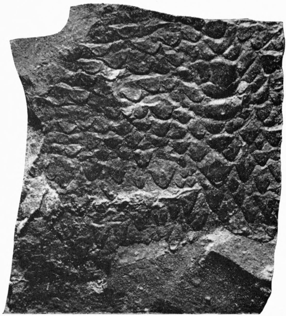 Eurypterids of the Devonian Holland Quarry Shale of Ohio. Fieldiana, Geology. Vol. 14, No. 5 (1961), Figure 42. Dorsal side of eleventh tergite of Pterygotus (Pterygotus) carmani, n. sp., paratype, PE5119; ✕ 2.2.